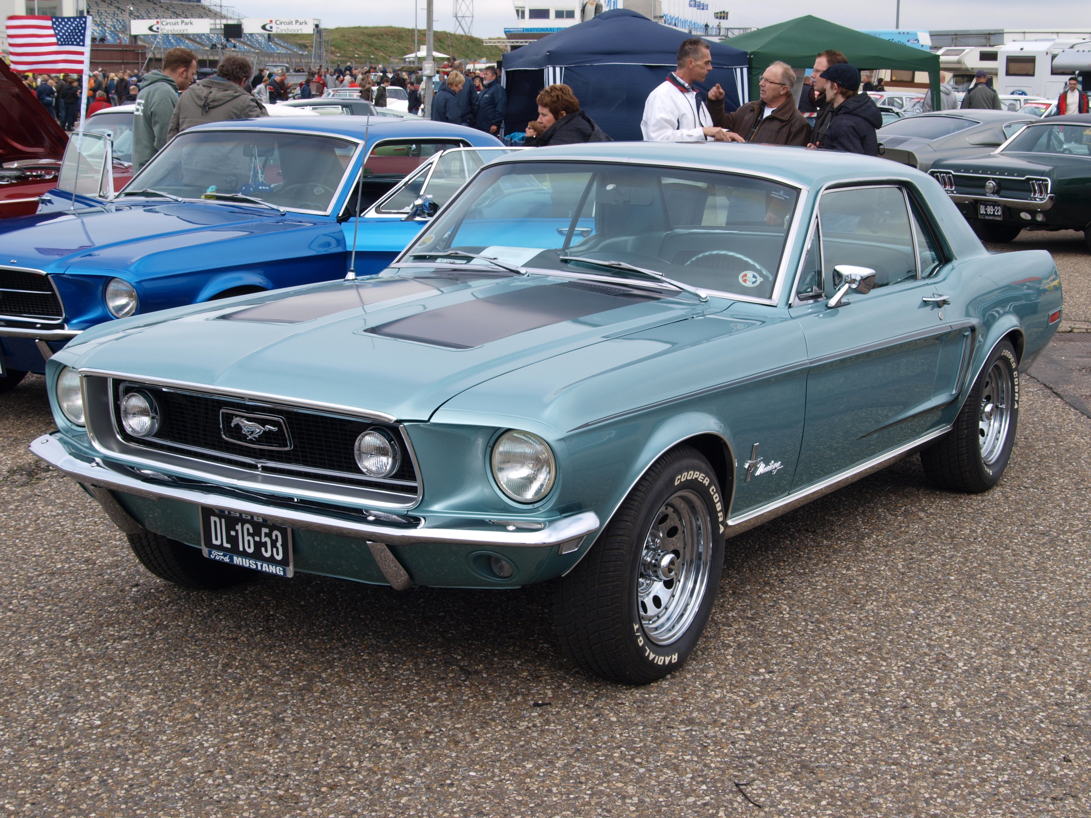 Photographed at the Nationaal Oldtimer Festival Zandvoort 2010, The Netherlands.